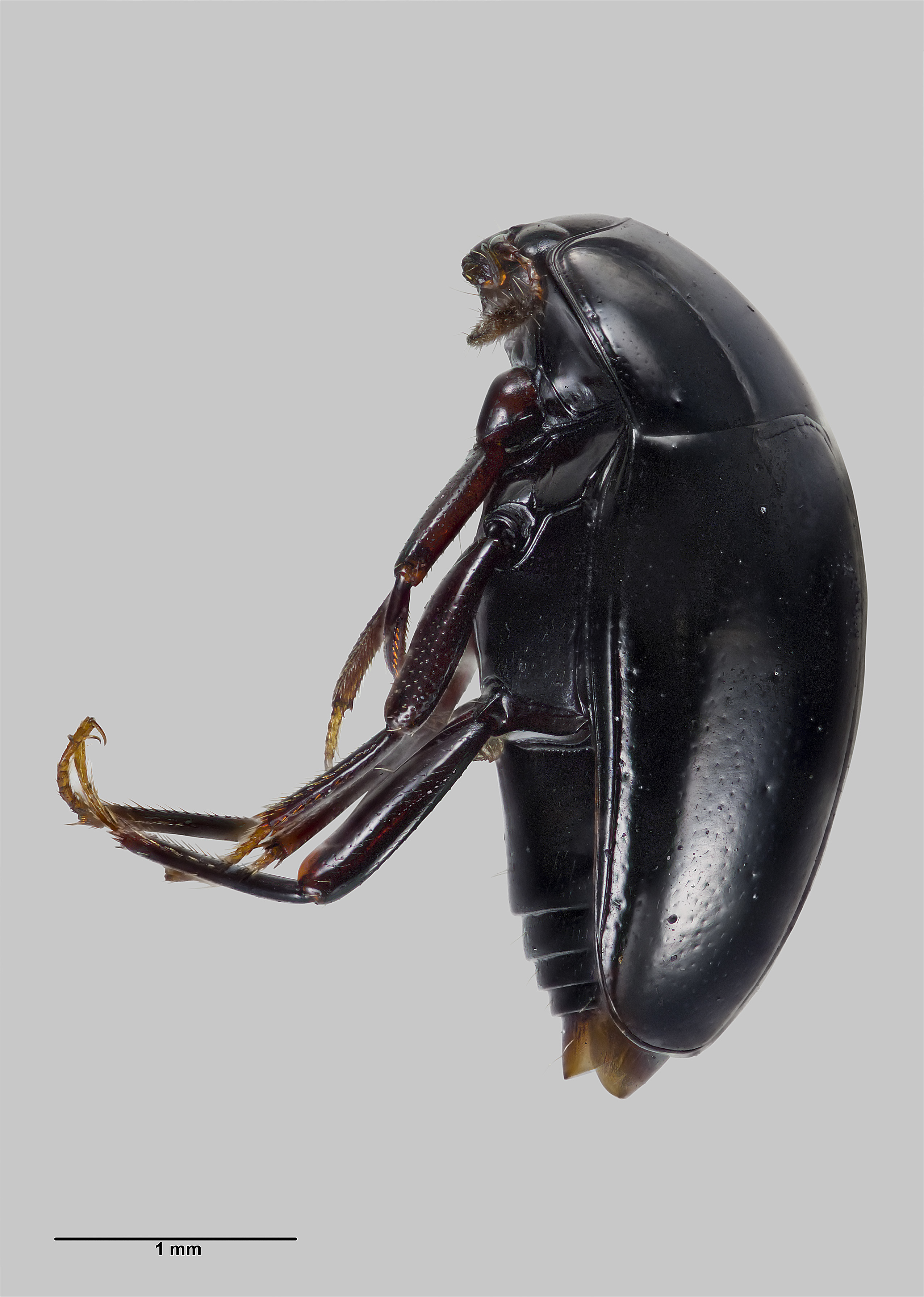 Side view of Cyparium thorpei specimen AMNZ57119 held at the Auckland War Memorial Museum